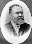 Captain John Mackay